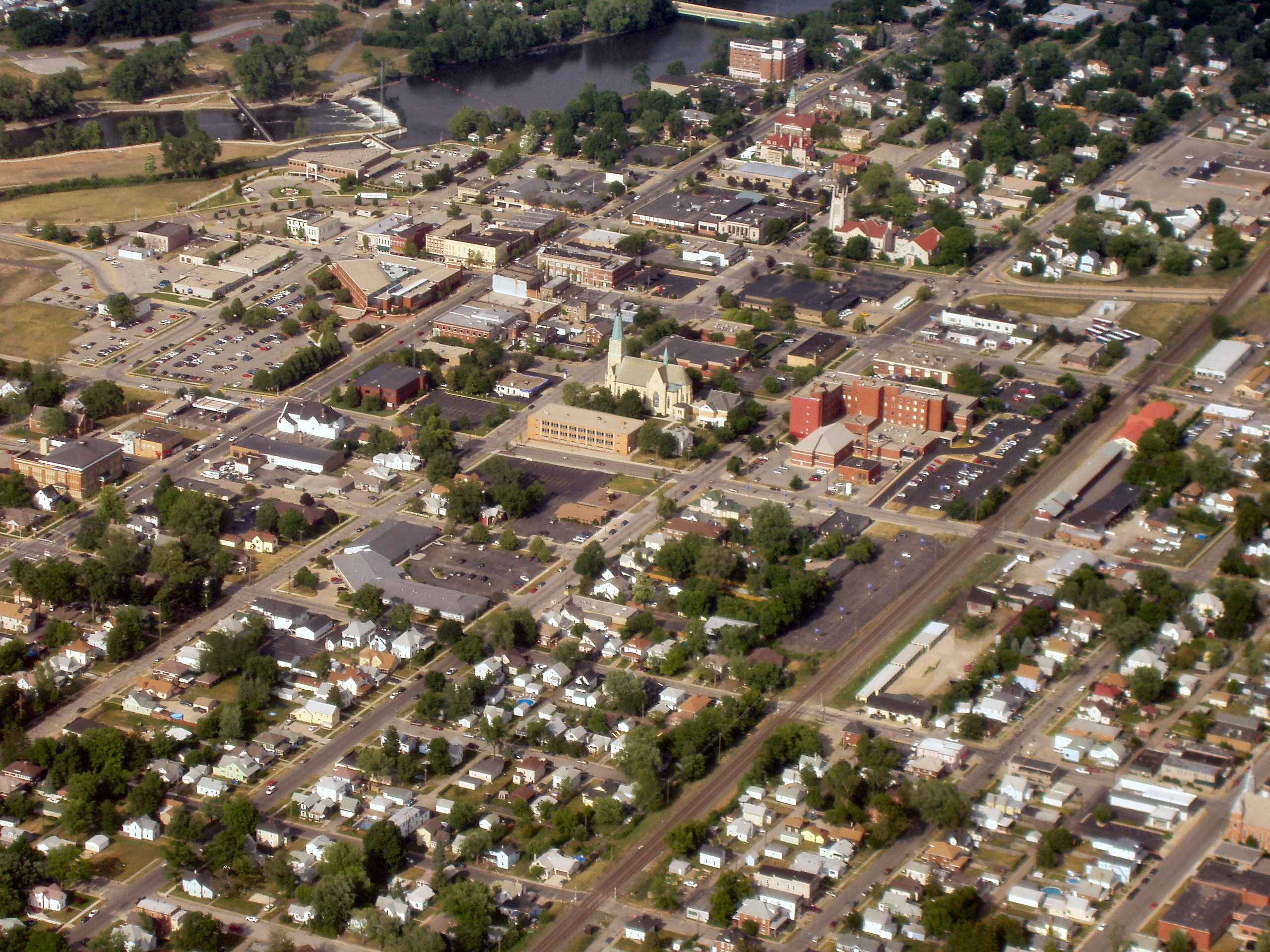 Mishawaka, Indiana downtown, south of the Saint Joseph River. Photo shot by Derek Jensen (Tysto), 2005-June-09